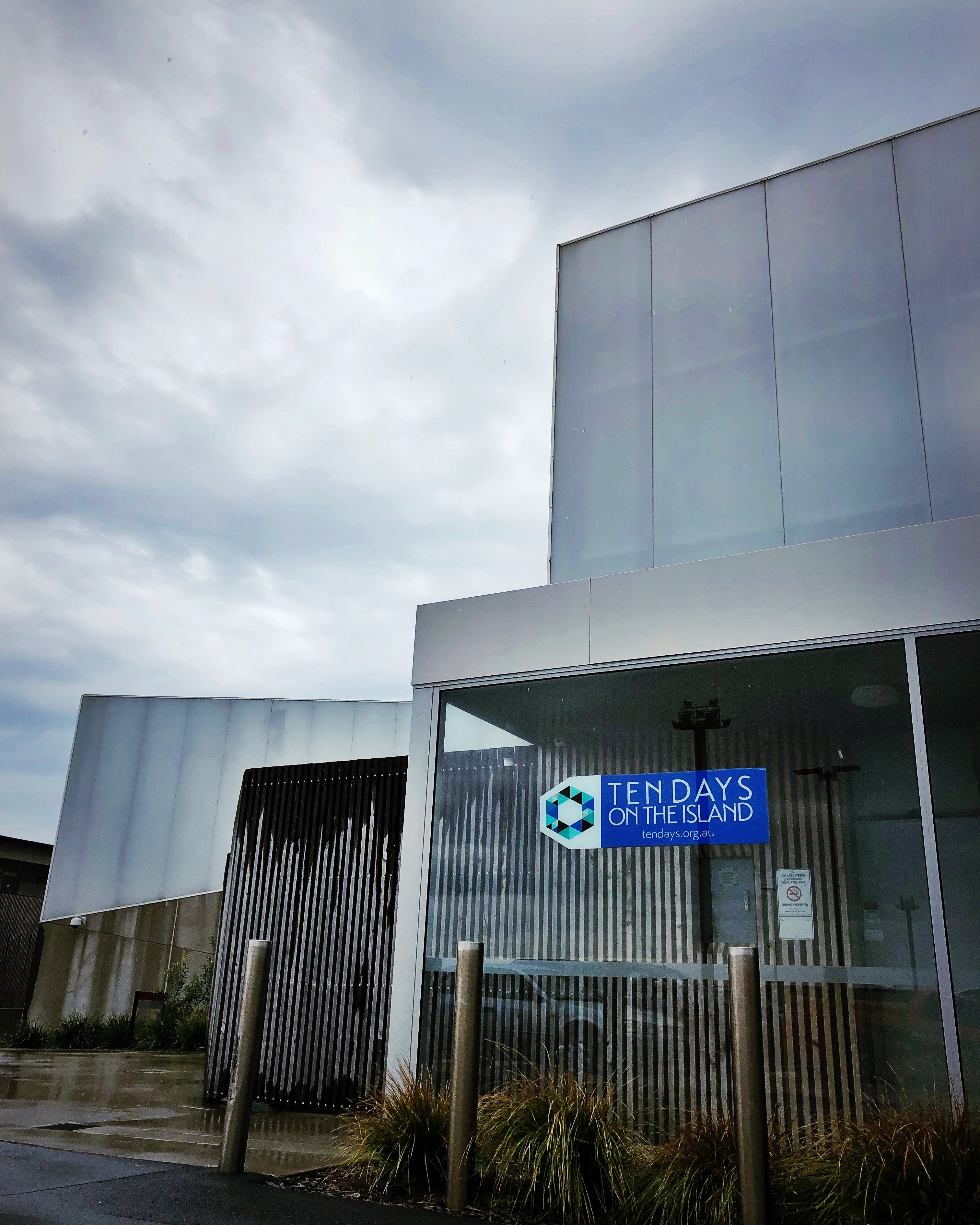 Office of Ten Days on the Island